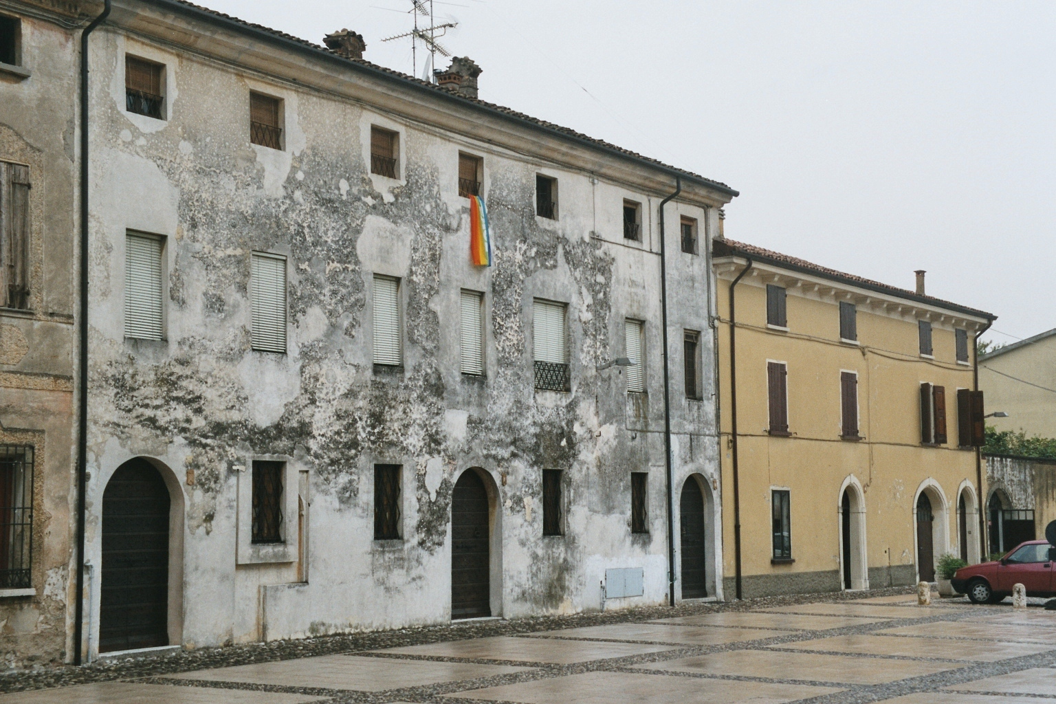 Building in Solferino with Pace-Sign